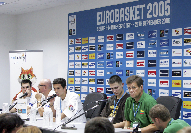 Press conference Antanas Sireika LTU head coach,right, second to left Neven Spahija CRO head coach. Lithuania beat Croatia 85:67